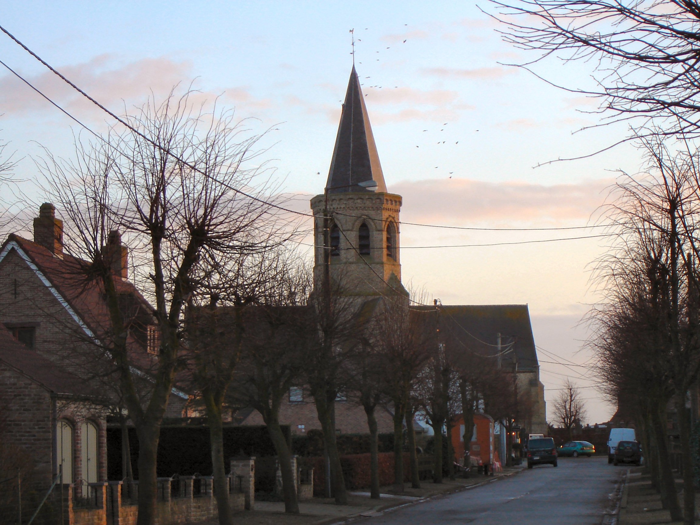 Church of Saint Andreas in Zande in Koekelare, West Flanders, Belgium